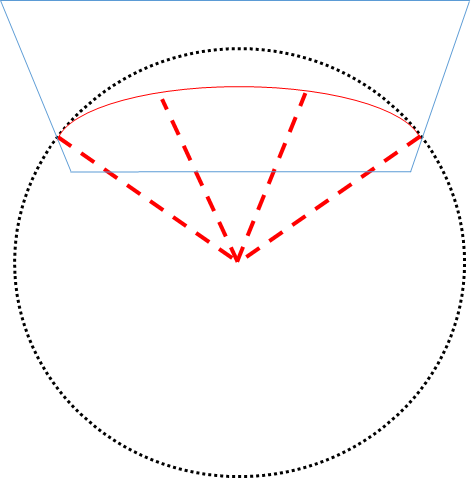 Uniform illumination from a point source at a given optical plane (blue) is achievable within the arc (solid red), effectively the intersection of the plane and the sphere of uniform irradiance from the point (black). The incident angle is rotated azimuthally across the arc, indicated by different directions of dashed lines.